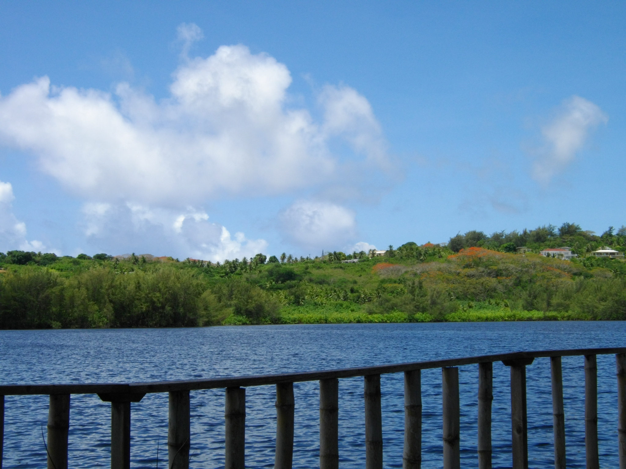 Lake Susupe